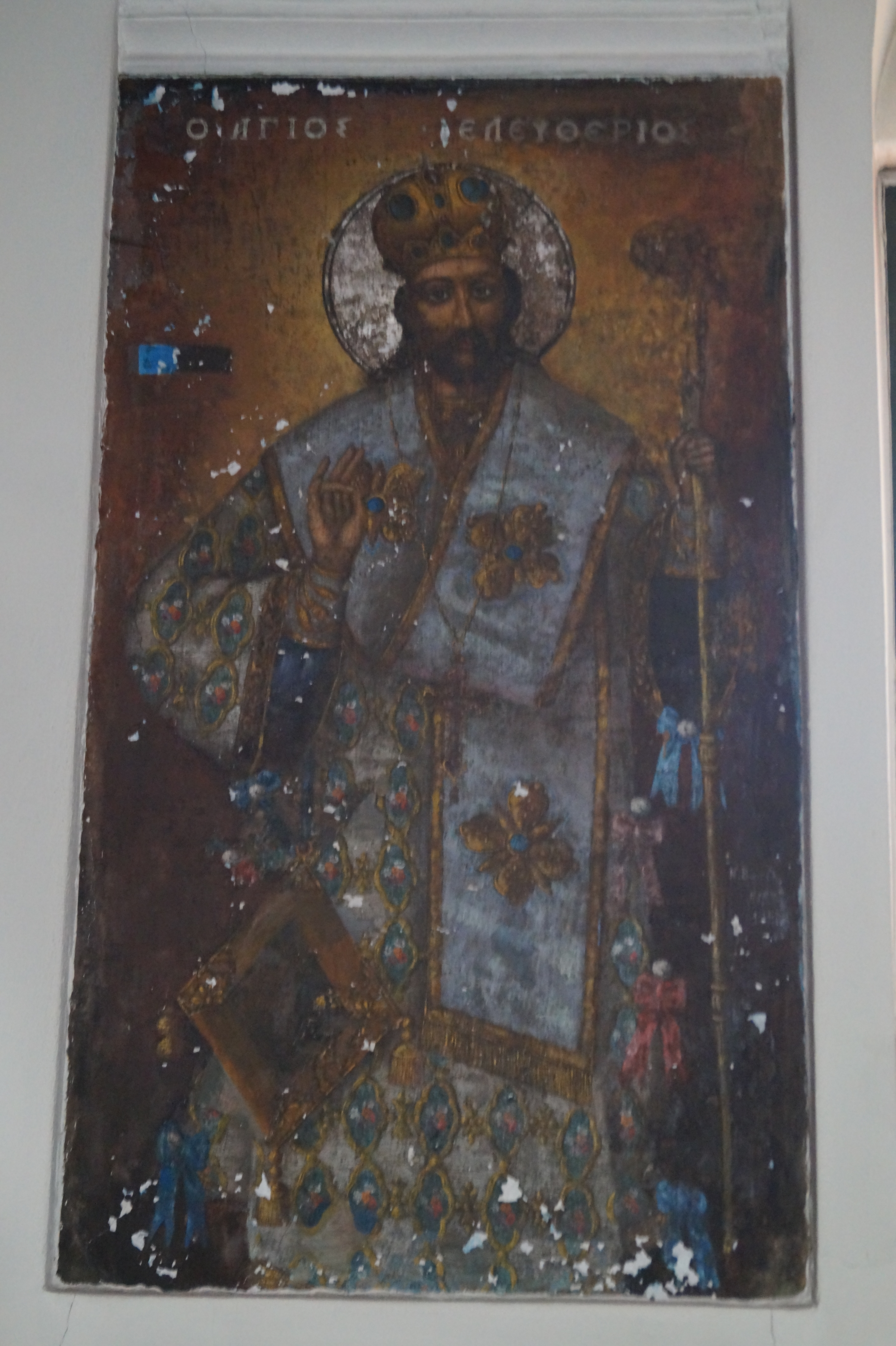 Sofiko, Corinthia, Greece: Inside the church Efangelismos tis Theotokou in the district Kokkinia: Fresco of Agios Eleftherios (cretean school).